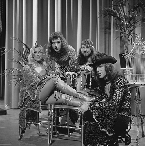 Bonnie St. Claire & Unit Gloria in AVRO's TopPop (Dutch television show) in 1974